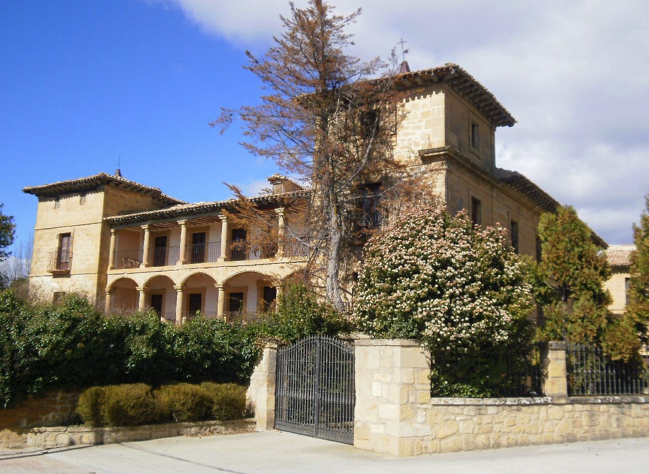 Palacio de los Marqueses de Legarda